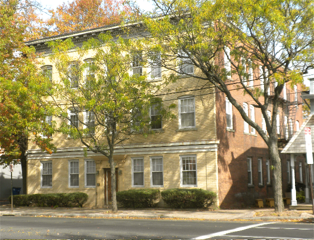 Westville Historic District, New Haven.